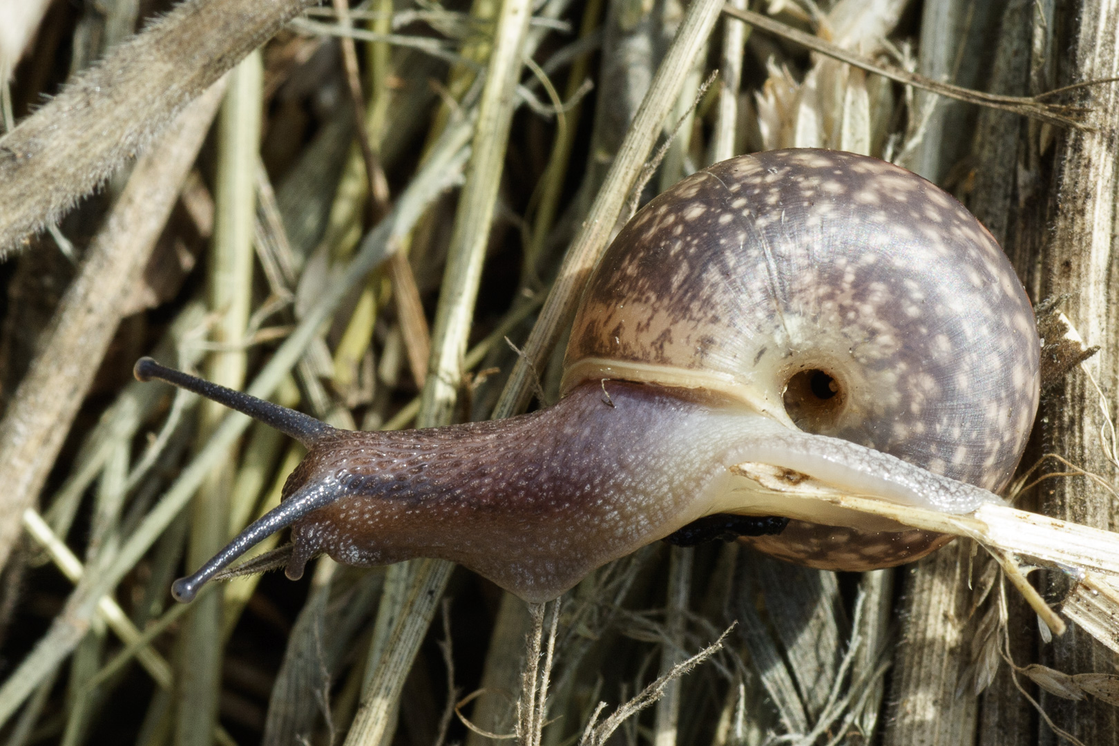 Fruticicola fruticum withe the umbilicus exposed.